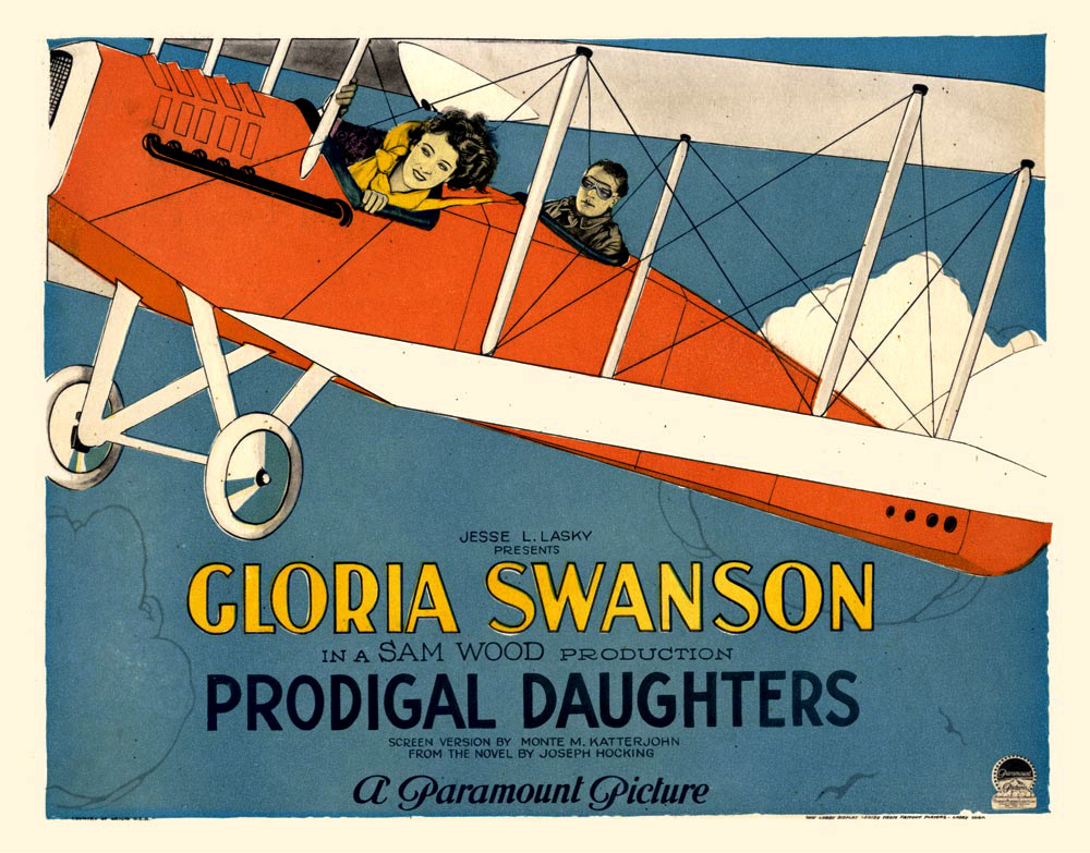 Lobby card for the American drama film Prodigal Daughters (1923). There are no copyright marks on the item. At lower left is Country of origin USA. At lower right is This lobby display leased from Paramount Famous Players Lasky Corp.